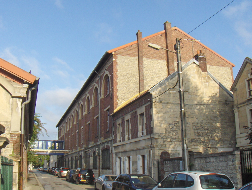 Usine Guilleminot in Chantilly : former photographic plates and films factory